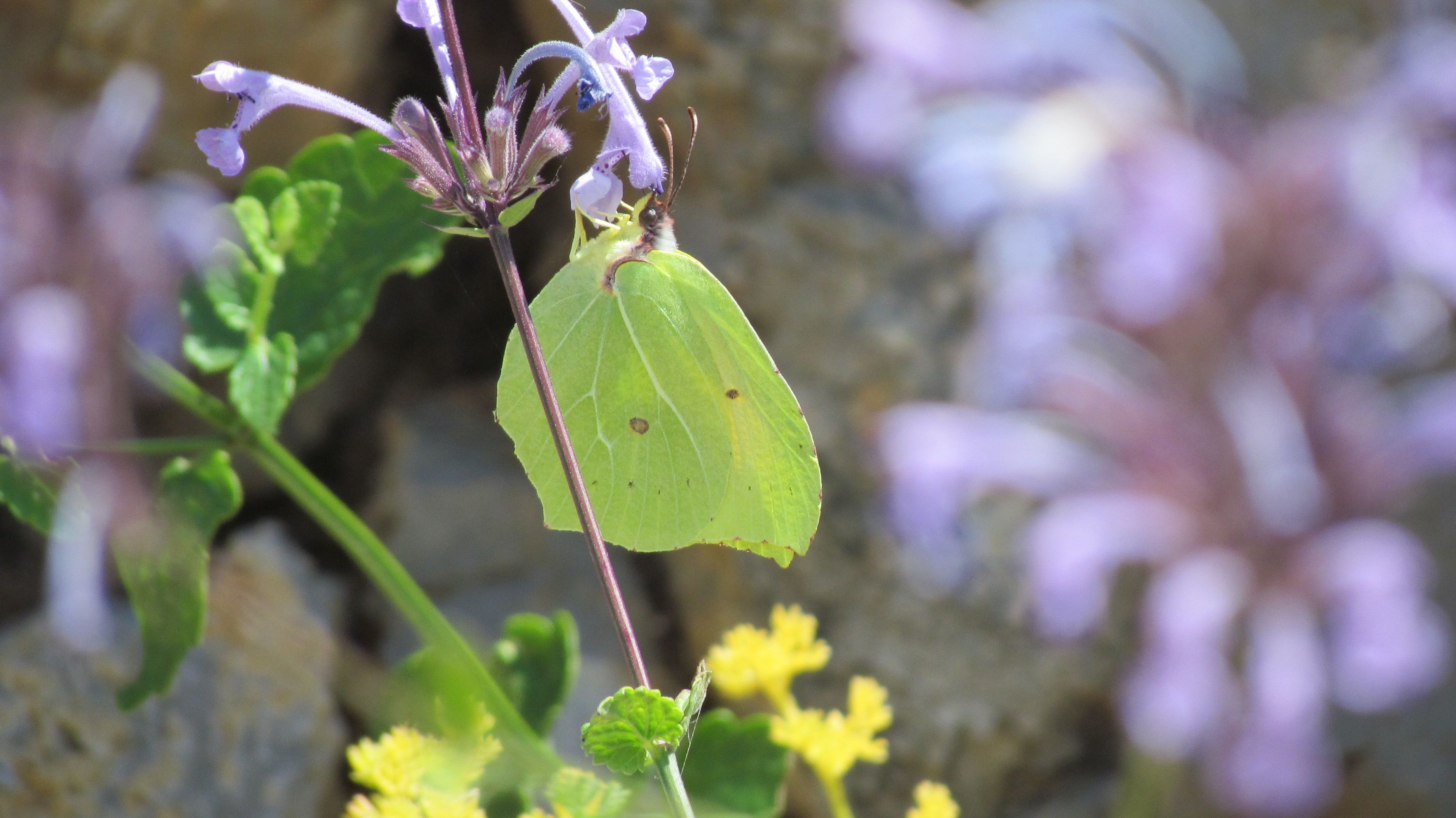 לימונית האשחר (Gonepteryx cleopatra) בחרמון